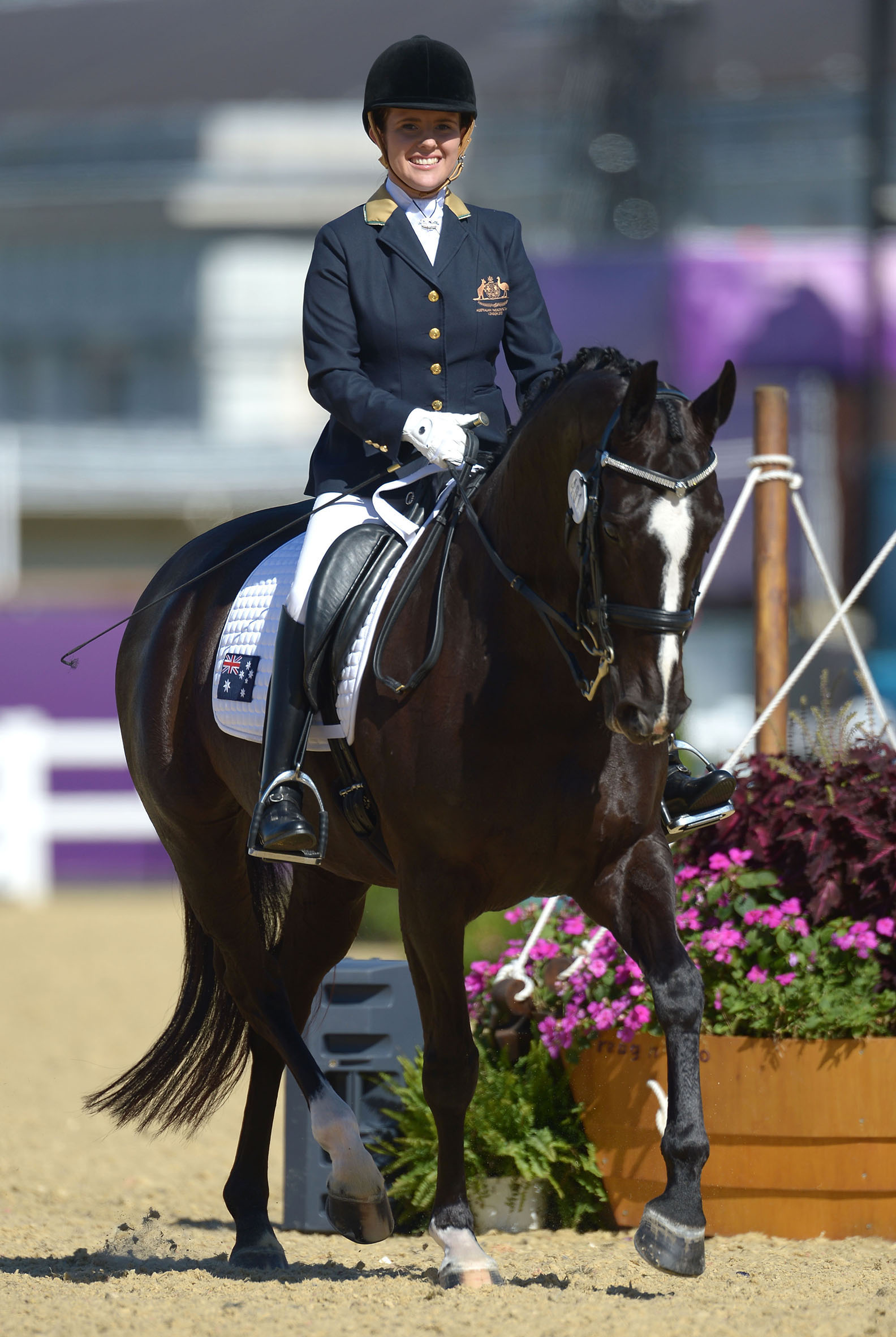 Photograph of Australian Paralympic team member Hannah Dodd at the 2012 Summer Paralympics in London